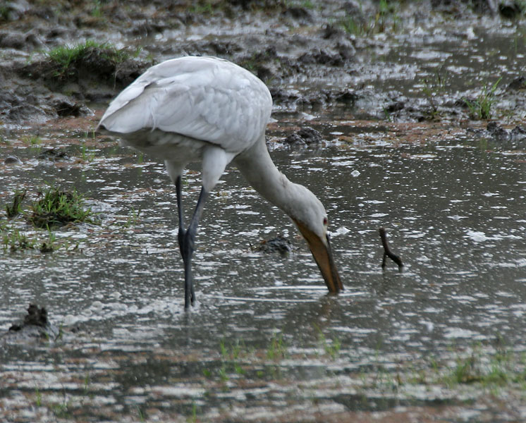 Eurasian Spoonbill Platalea leucorodia at Keoladeo National Park, Bharatpur, Rajasthan, India.